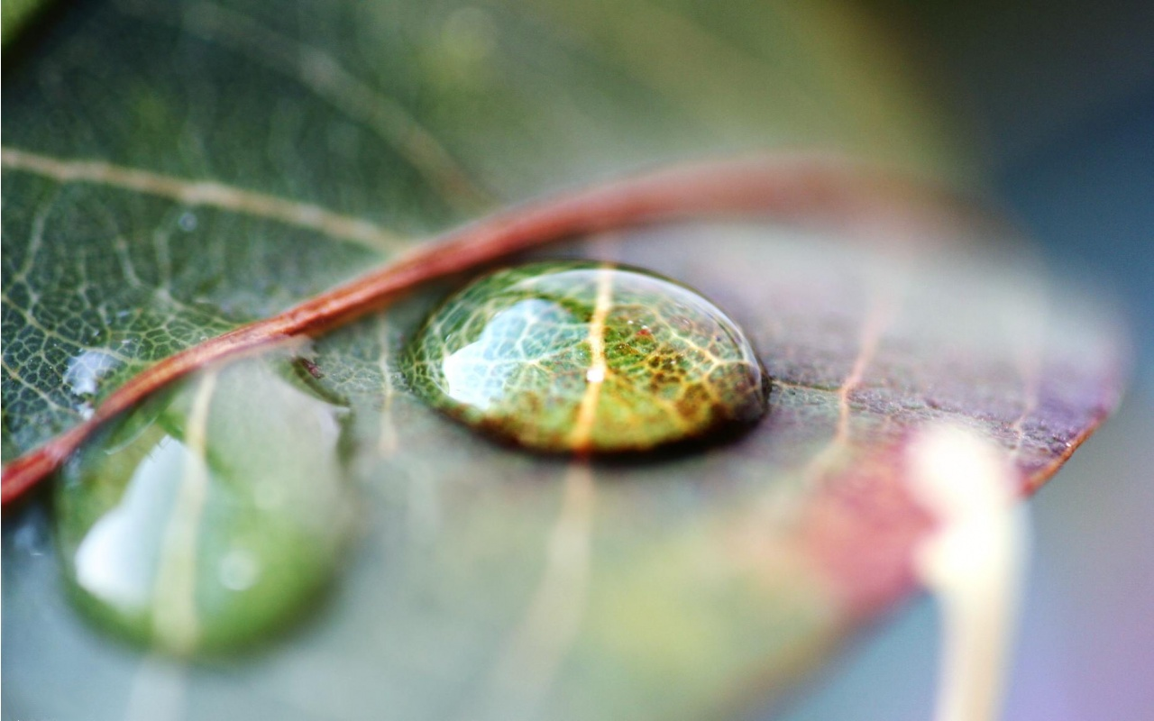 Drops of water on a leaf